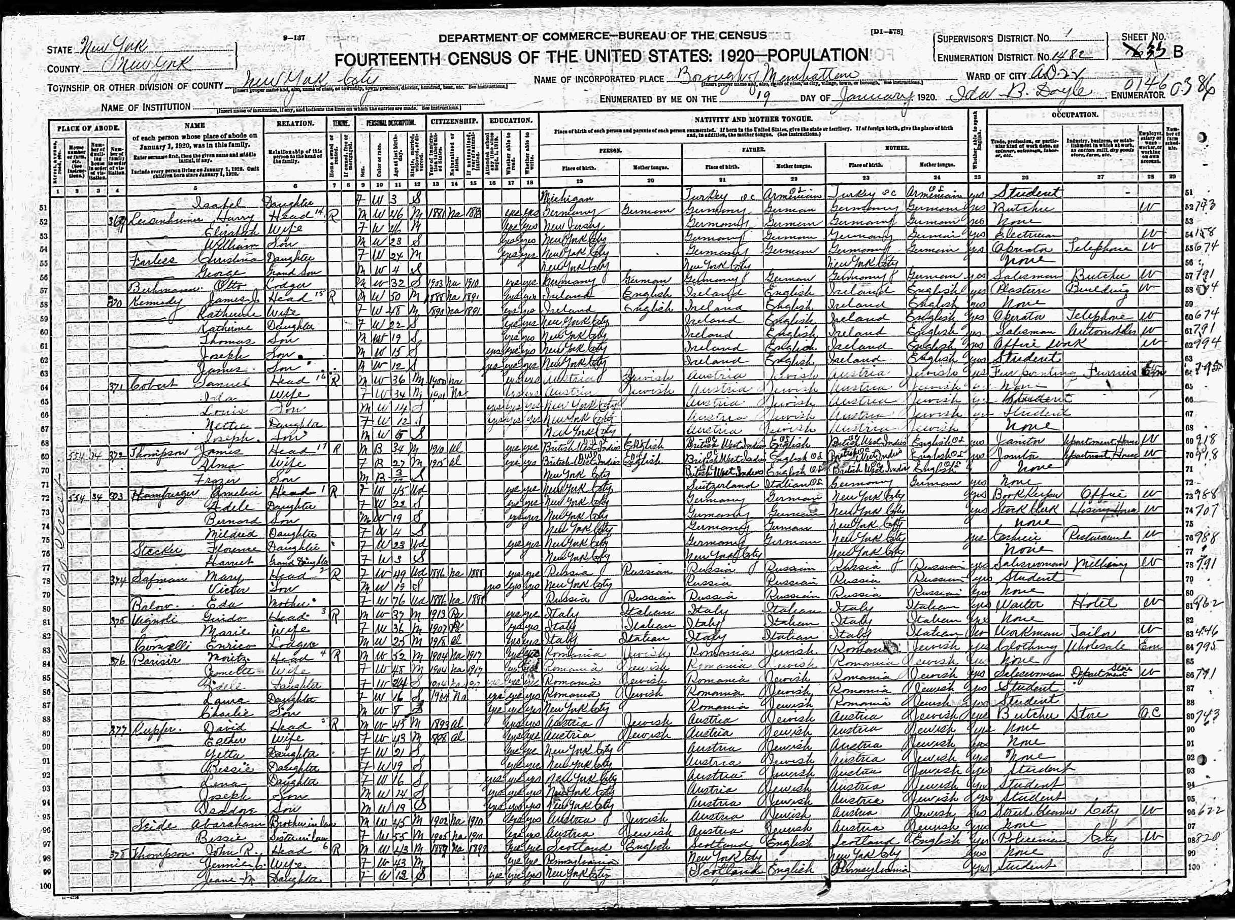 11920 US Census, New Jersey: Enumeration District 1482, Sheet 35B, Line 58-63, Image 65/80 West 160th Street, Harlem, Manhattan, New York City, New York County, New York, USA Household: James J. Kennedy, head, age 50, immigrated 1888, naturalized 1891, plasterer, b. Ireland Katherine Kennedy, wife, age 48, immigrated 1890, naturalized 1891, b. Ireland Katherine Kennedy, daughter, age 22, Telephone Operator Thomas Kennedy, son, age 19, Automobile Salesman Joseph Kennedy, son, age 15, Office Work James Kennedy, son, age 12, Student Household Interpreted: James Joseph Kennedy (1870-1926) Husband of Katherine (Kitty) Carr Katherine Carr (1872-1951) Wife of James Kennedy Kathryn Kennedy (1897-1974) Child of James Kennedy and Katherine Carr Thomas Kennedy (1901-1972) Child of James Kennedy and Katherine Carr Joseph Edward Kennedy (1905-1983) Child of James Kennedy and Katherine Carr James Gerard Kennedy II (1907-1997) Child of James Kennedy and Katherine Carr Note: Daughter Mary Kennedy is married to Walter Hill and living apart from family Source: US Census, New Jersey, 1920